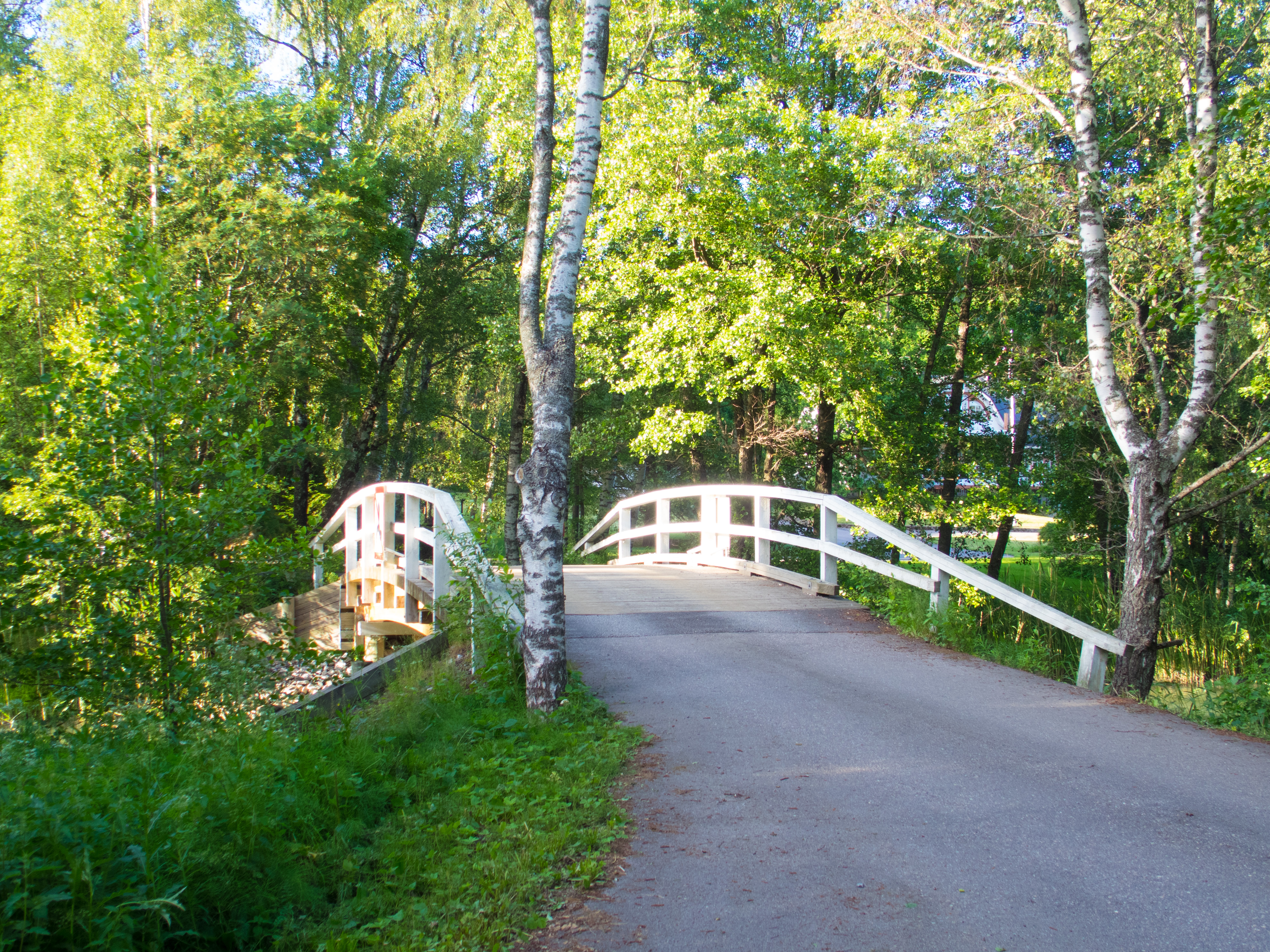 Bridge to Rövarholmen island in SW corner of Kuusisto island, Kaarina, Finland.